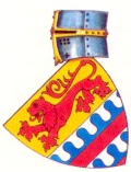 Coat of arms of the Counts of Urach (12th century).